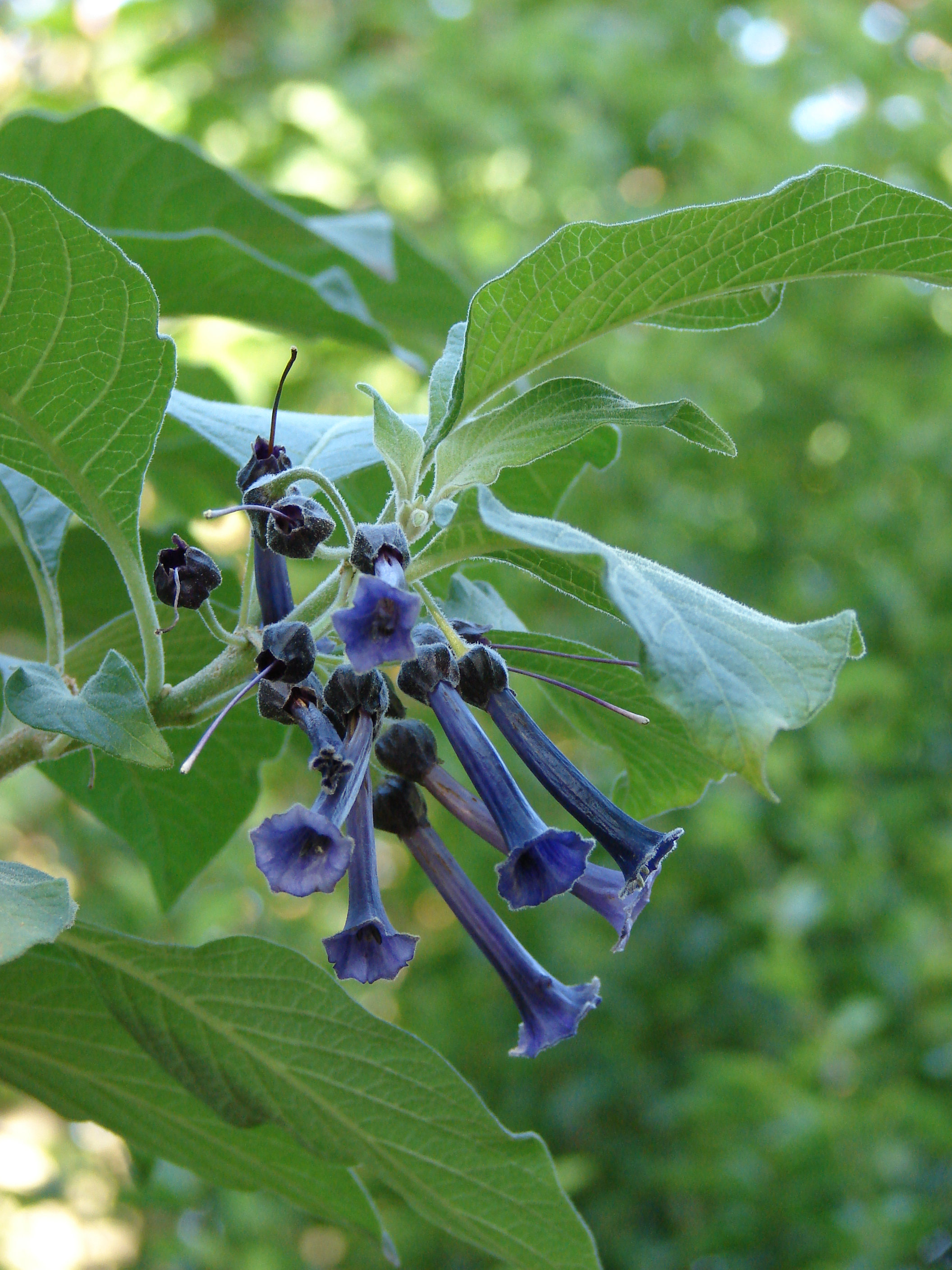 Iochroma cyaneum (flowers and leaves). Location: Maui, Enchanting Floral Gardens of Kula